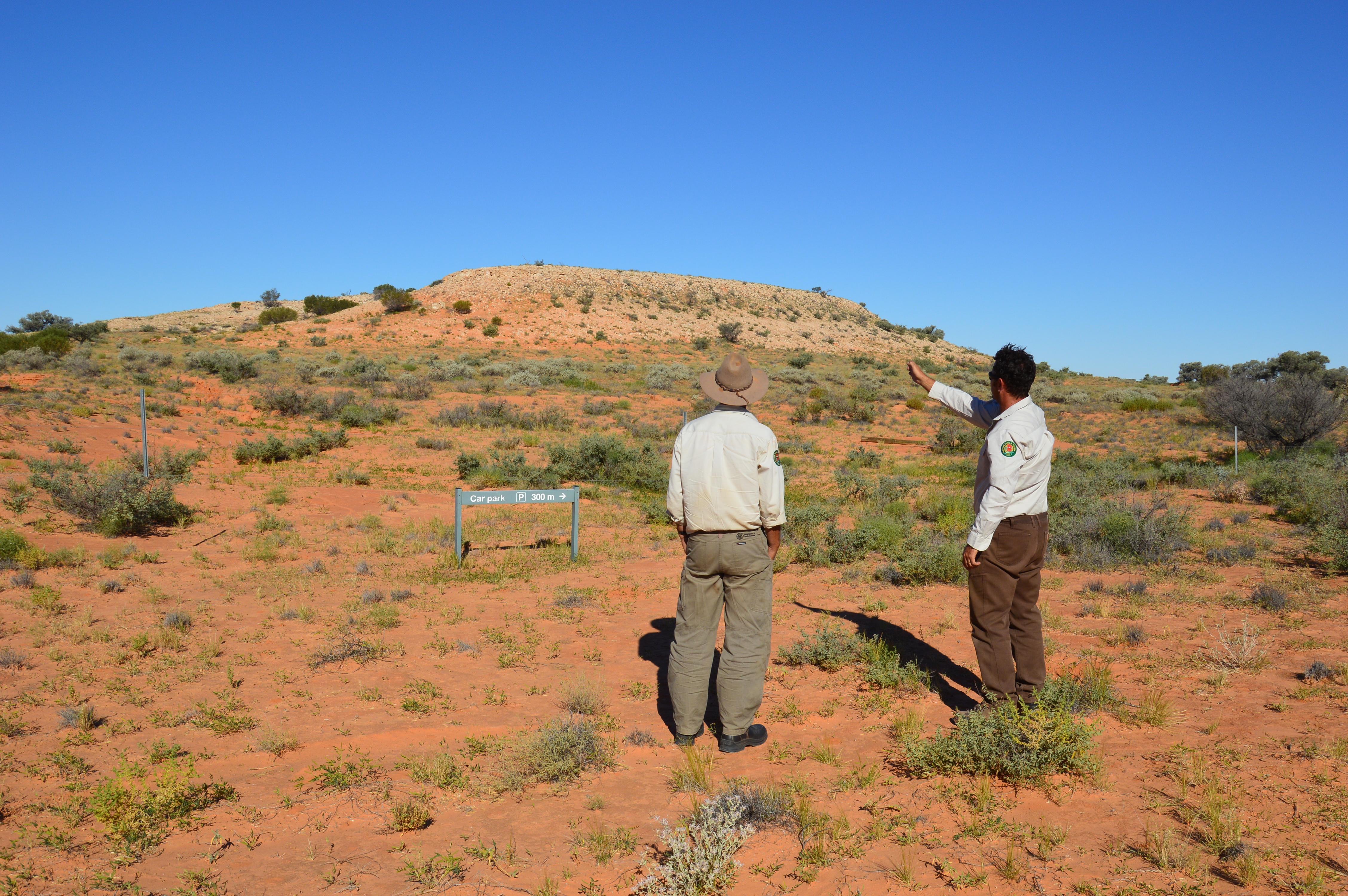 Simpson Desert Conservation Park includes gypsum outcrops that are culturally significant. The Attora Knolls are spectacular, as is the view from the top.